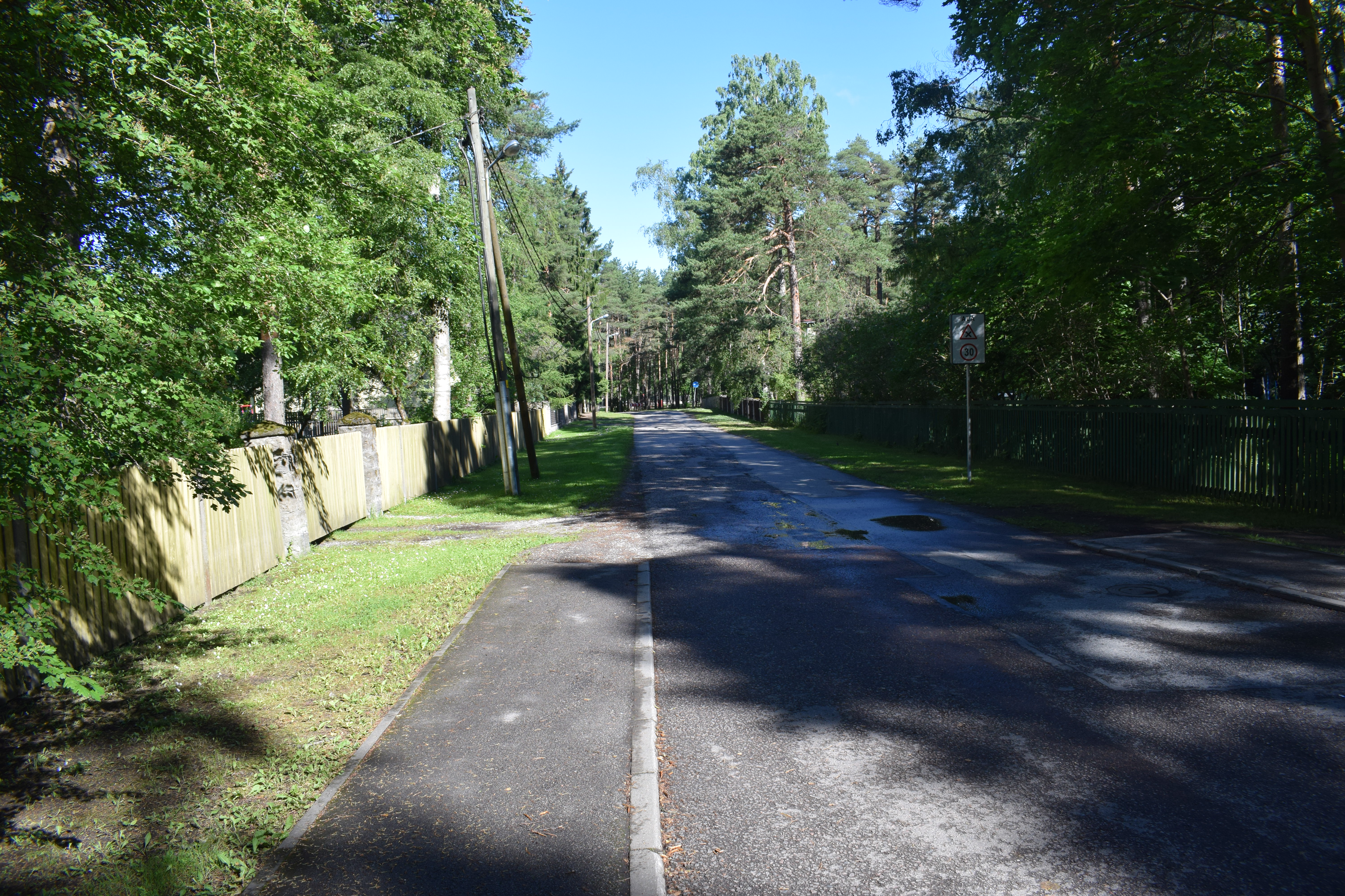 Kaasiku street